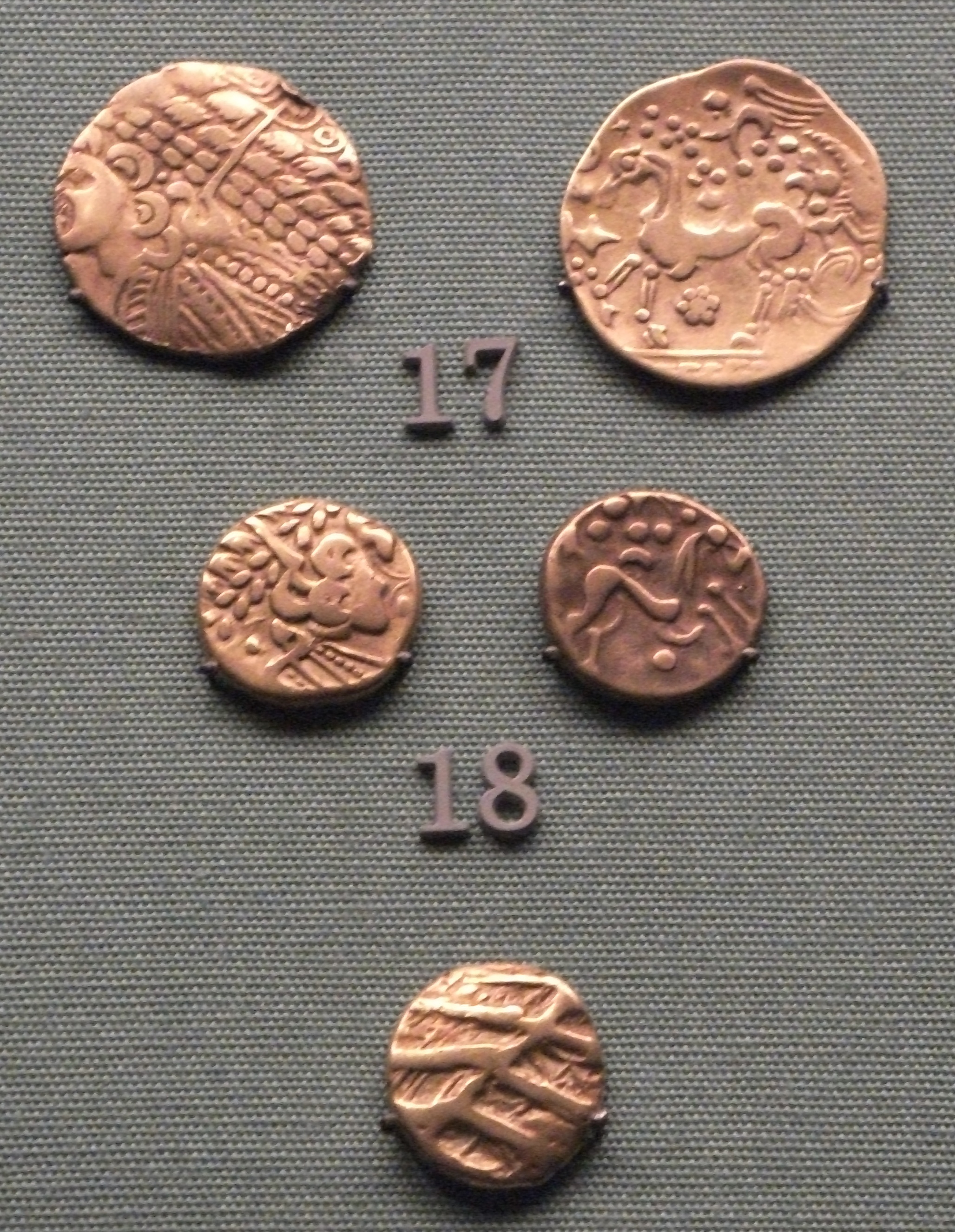 Celtic imitation staters, British Museum, Room 51